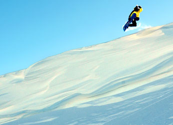 Snowboarder dropping a cornice at Sugarbowl